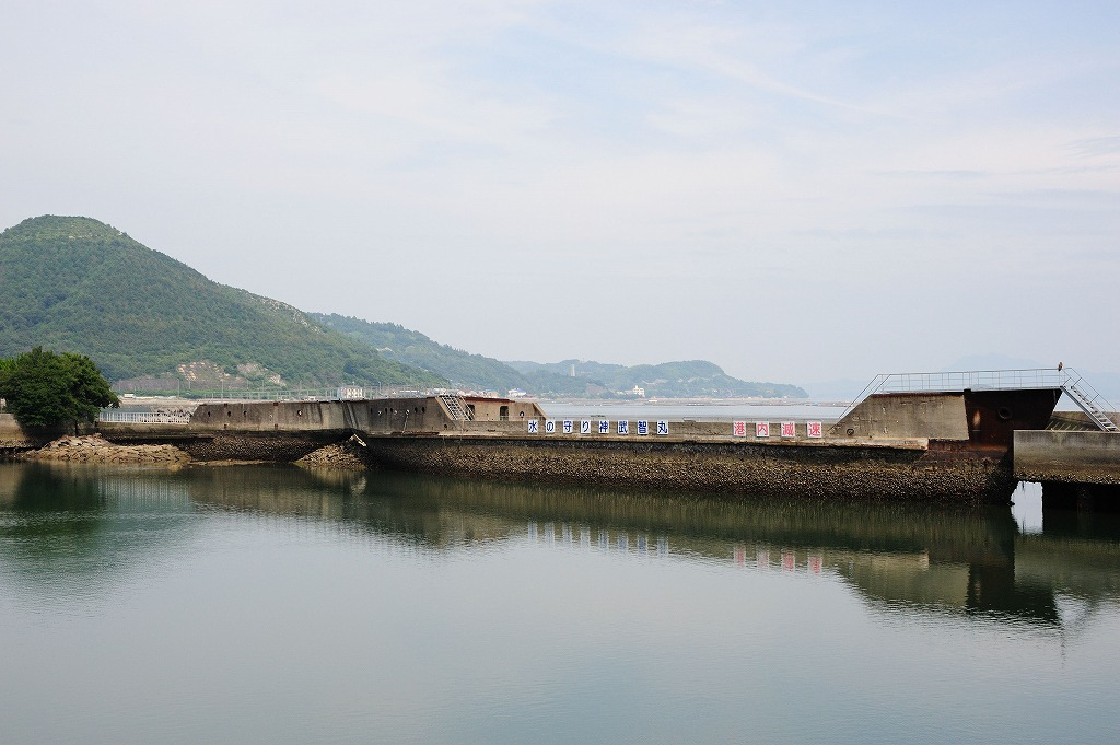 Concrete ships daini-takecimaru(right side)daiichi-takechimaru(left)Build ww2 at kure hiroshima japan